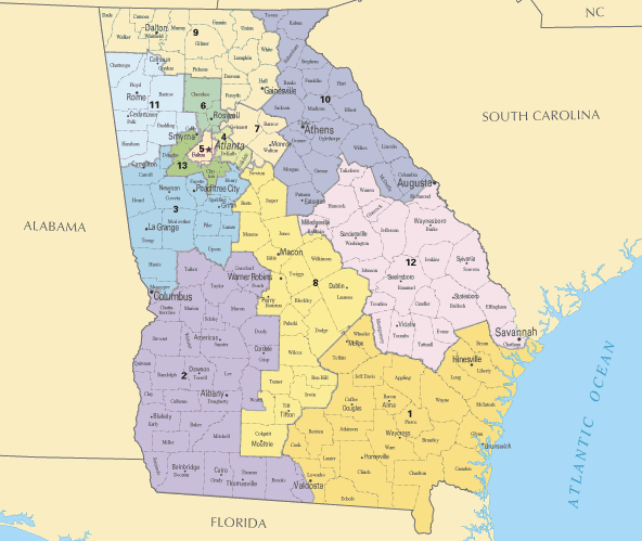 Georgia's congressional districts prior to 2012 redistricting